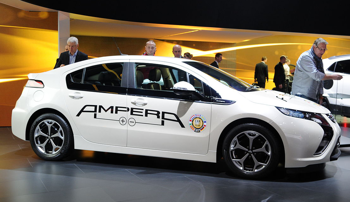 Geneva Motor Show 2012 (photos taken on the second press day)